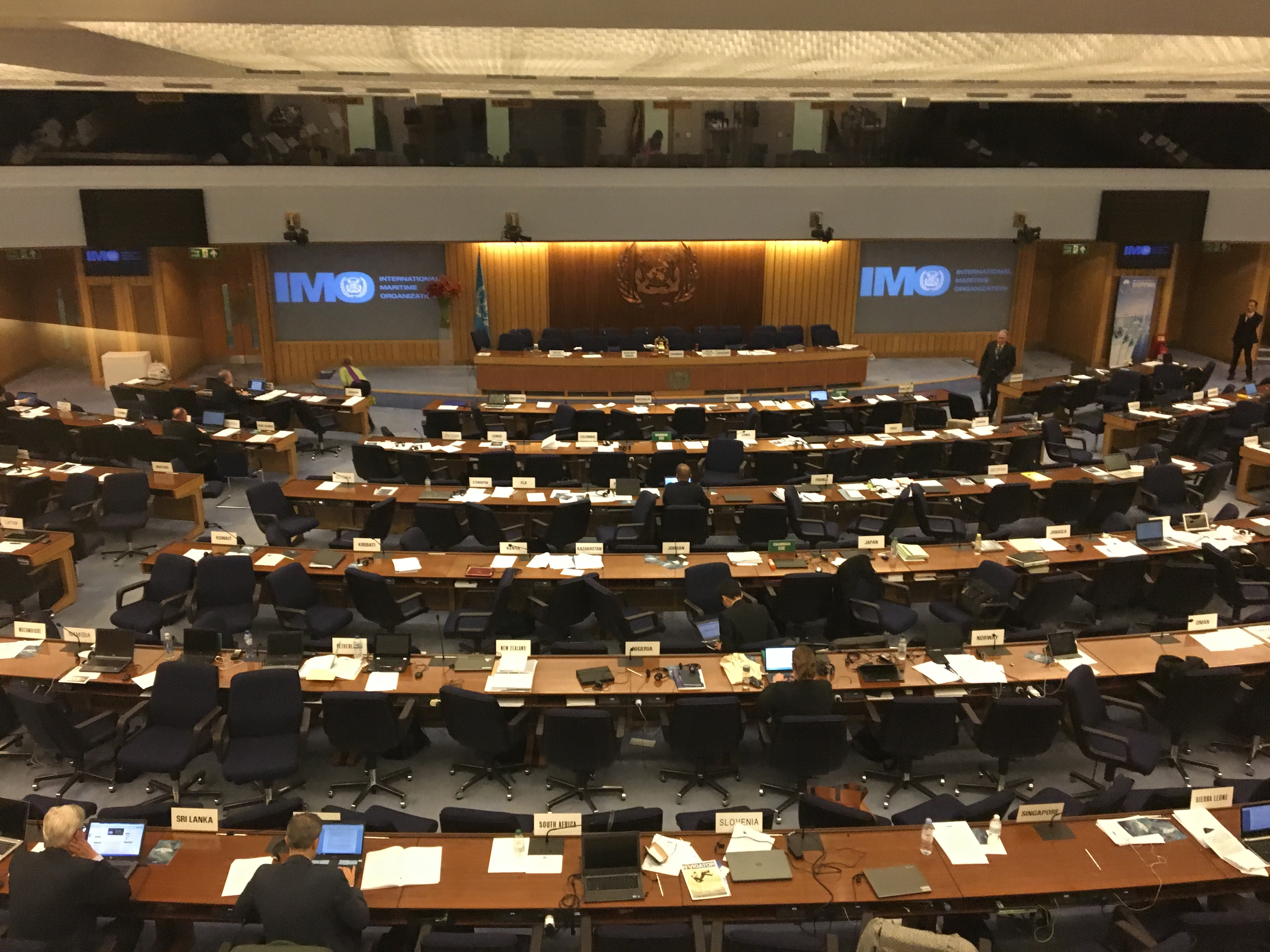 An image of the main hall assembly chamber, where the MSC and MEPC committee's of the International Maritime Organization meet each year, in Lambeth, London.